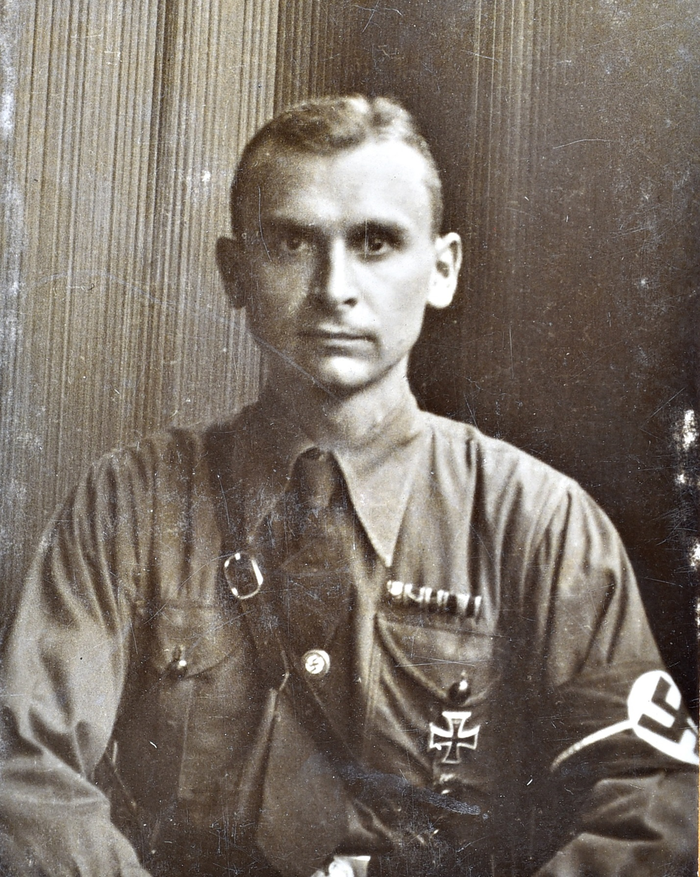 Hans-Joachim von Falkenhausen (1897-1934), one of the victims of the political purge of the Nazi Regime known as "Night of the Long Knives". He was shot on July 2 1934 on the grounds of the LSSAH-barracks in Berlin by an SS-firing-squad.